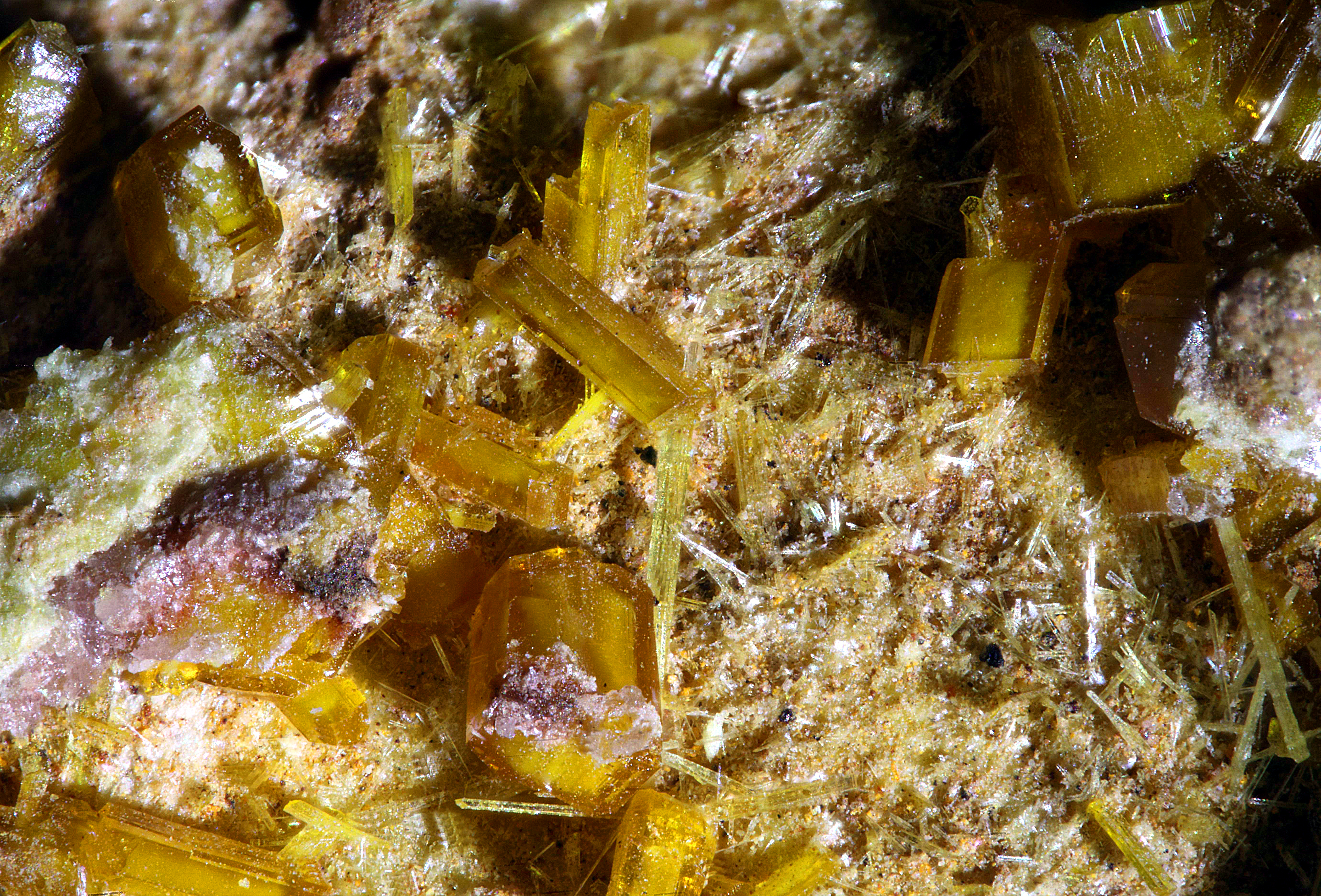 Pale yellow, needle-like swamboite with zonal banded yellow prisms of soddyite from Swambo Mine, Democratic Republic of Congo (Field of view: 5.8 mm). Notice the swamboite in the centre of the picture which "pierces" and penetrates a soddyite crystal.